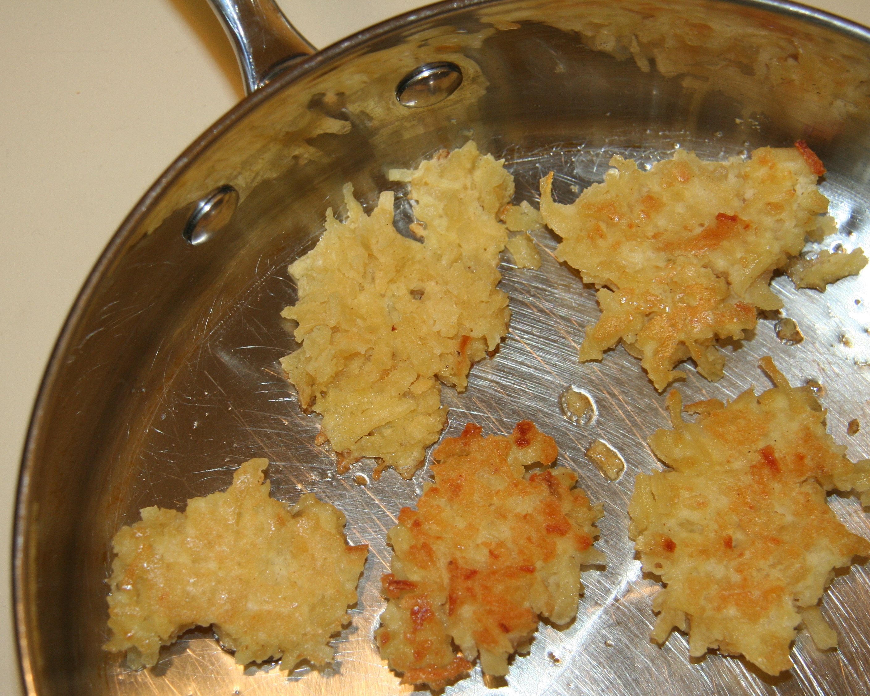 Latkes (potato pancakes) frying in olive oil